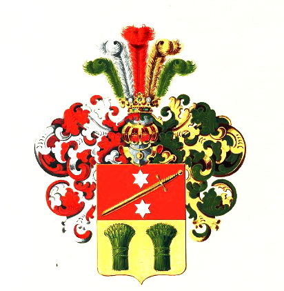 Coat of Arms of Wilson family